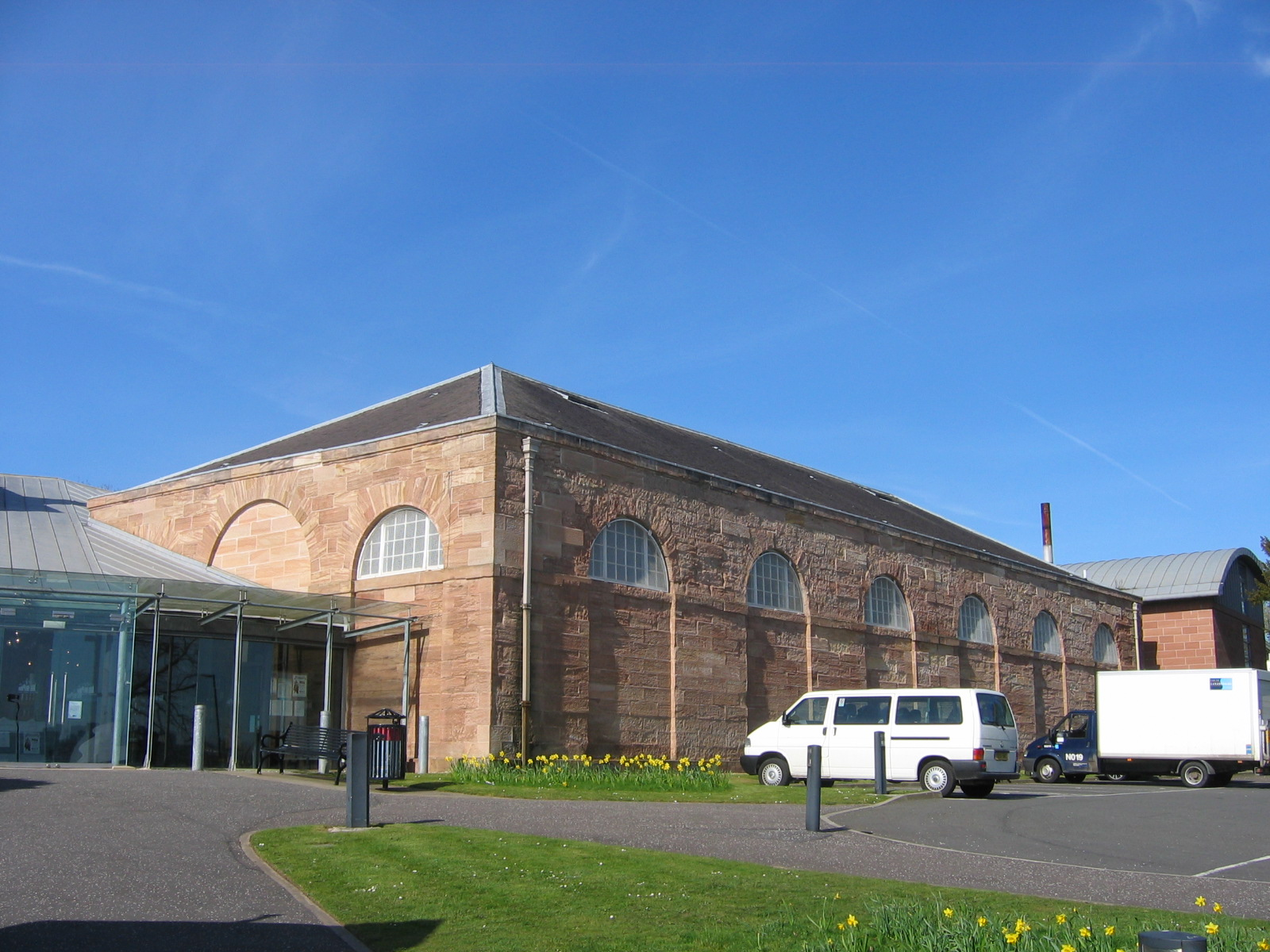 The Duchess' Riding School, Hamilton, Scotland, now part of the Low Parks Museum.